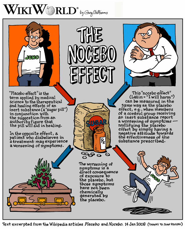 WikiWorld comic about "The Nocebo Effect," based on the articles "Placebo" and "Nocebo"